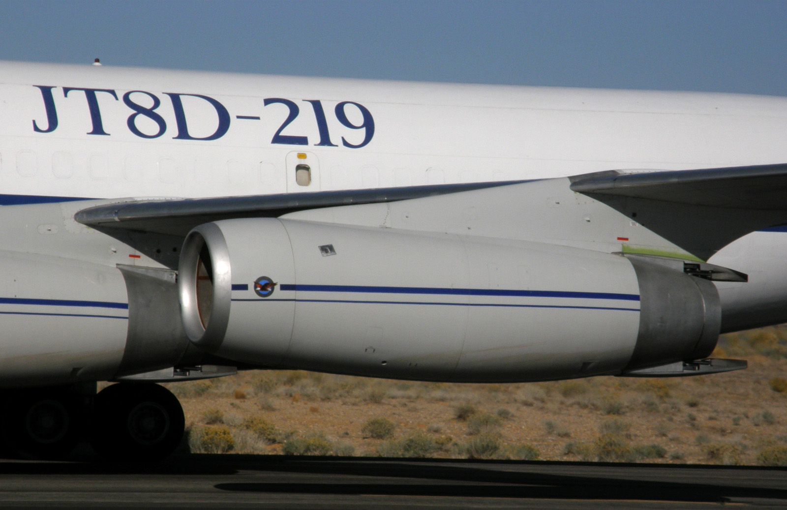 Pratt & Whitney JT8D-219 engine on the Boeing/Omega 707RE flight test aircraft